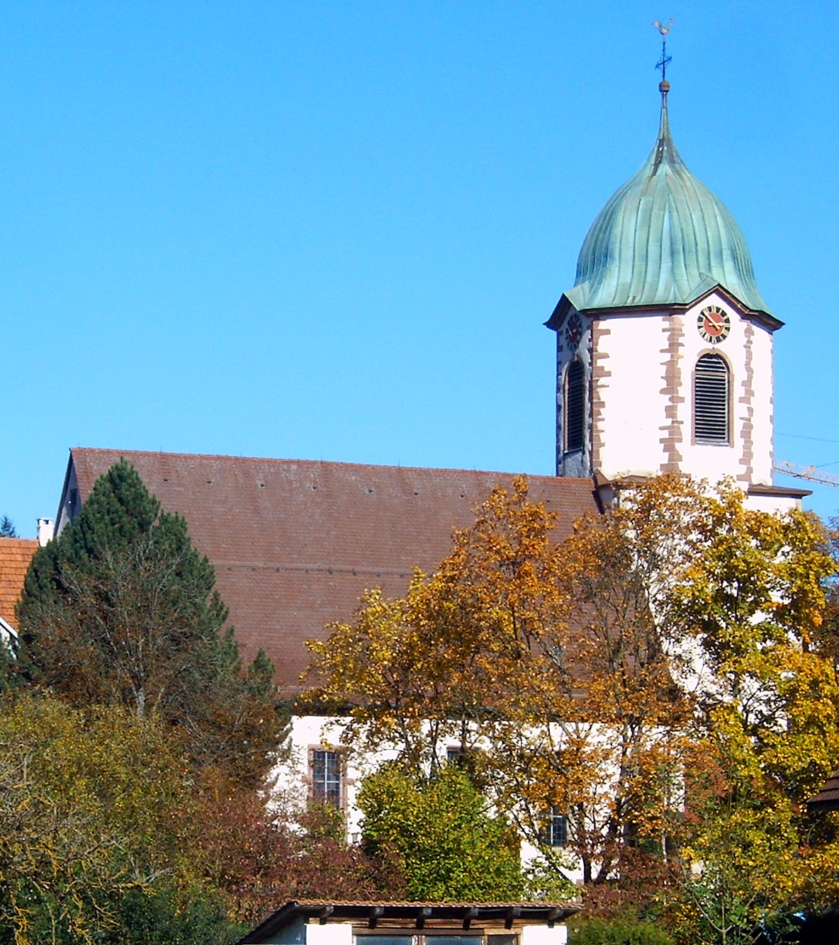 St. Germain’s Church in Malmsheim